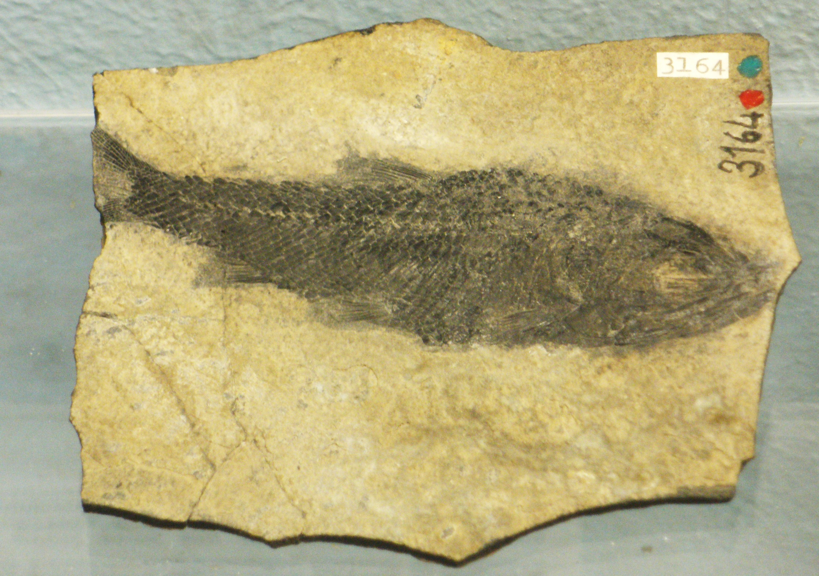 Fossil of Pholidorhynchodon malzannii, an extinct fish